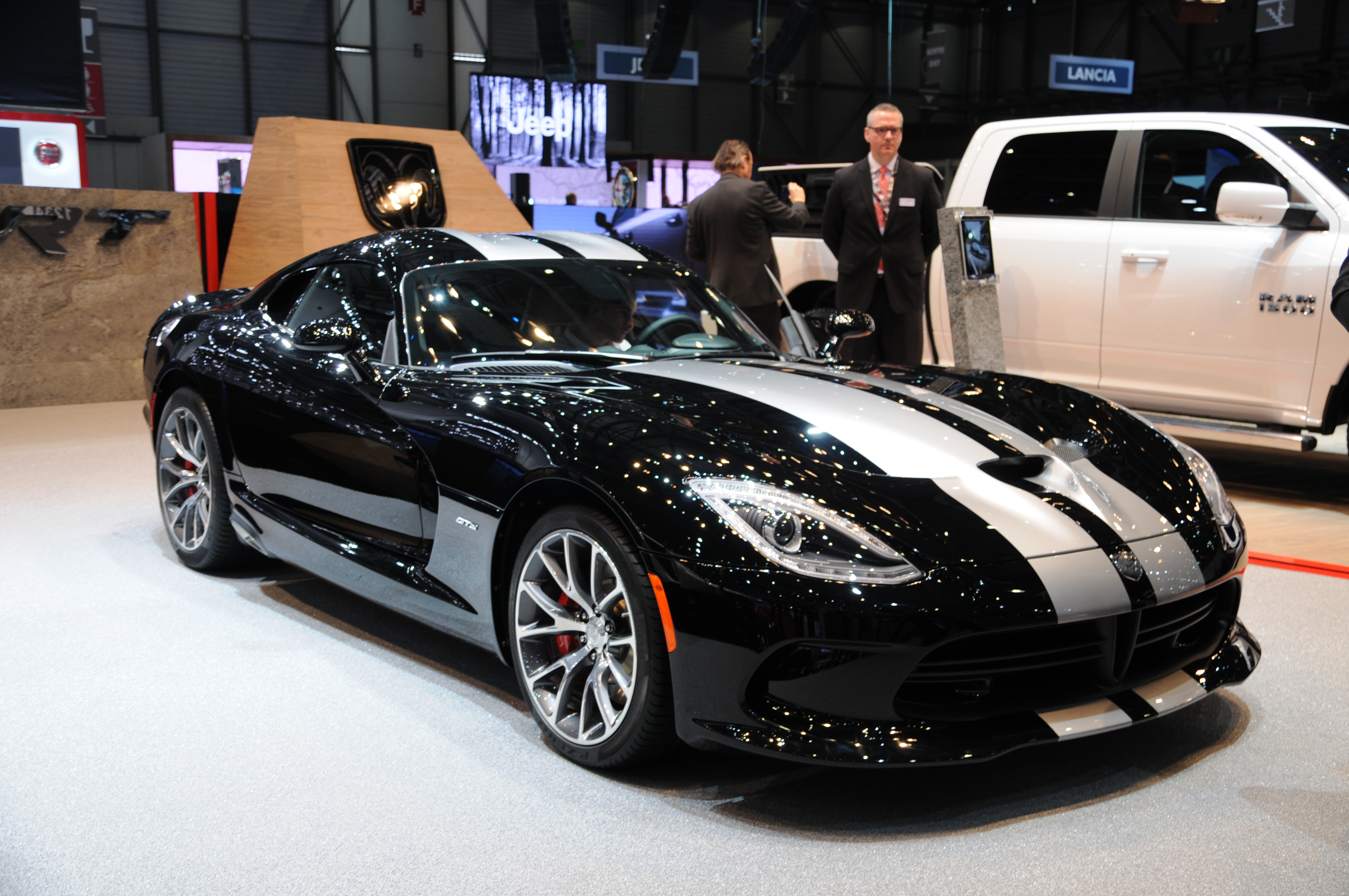 Geneva Motor Show 2014 (photo taken on the first press day)